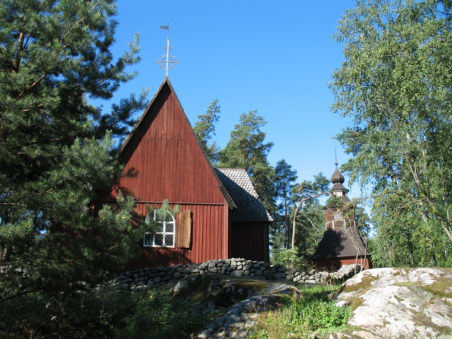 The old Karuna museum church, in Seurasaari, Helsinki. This church, originally located in Karuna near Turku in southwestern Finland, is among the oldest buildings in Helsinki (build originally 1686).